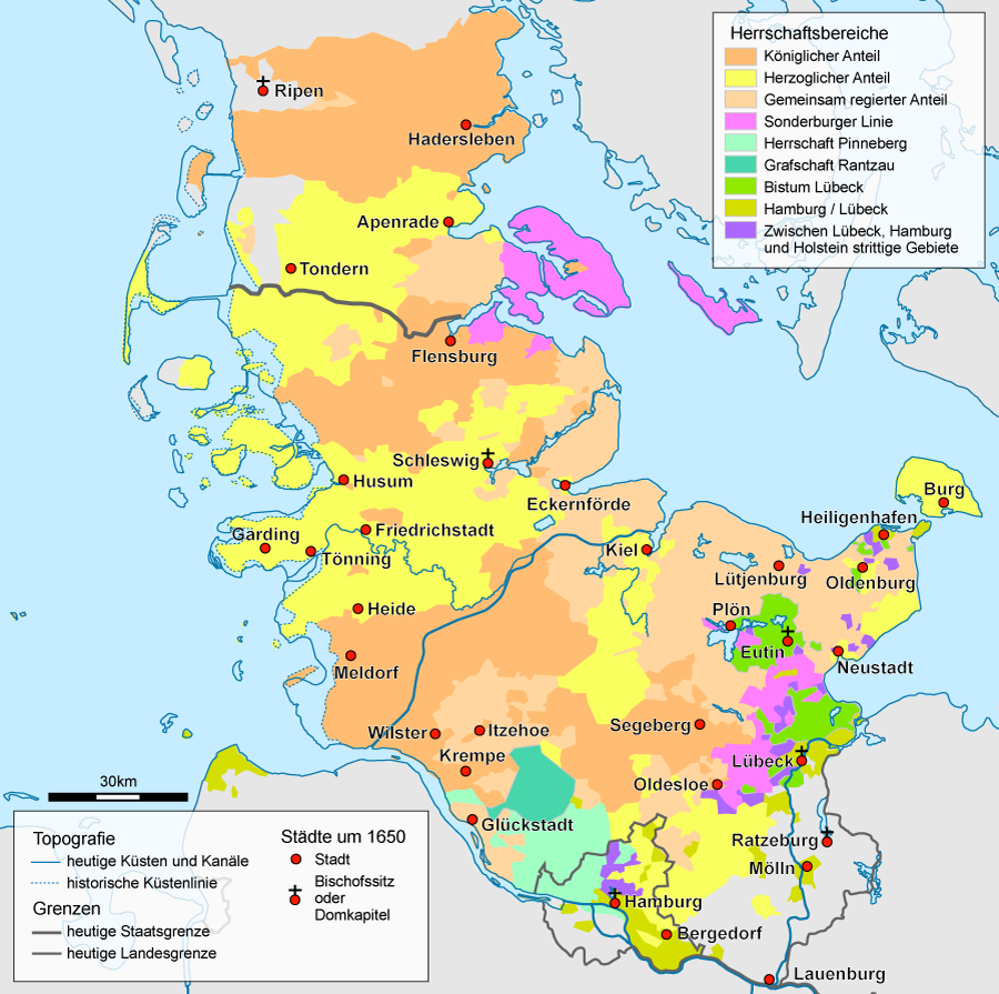 Map of Schleswig-Holstein after 1650